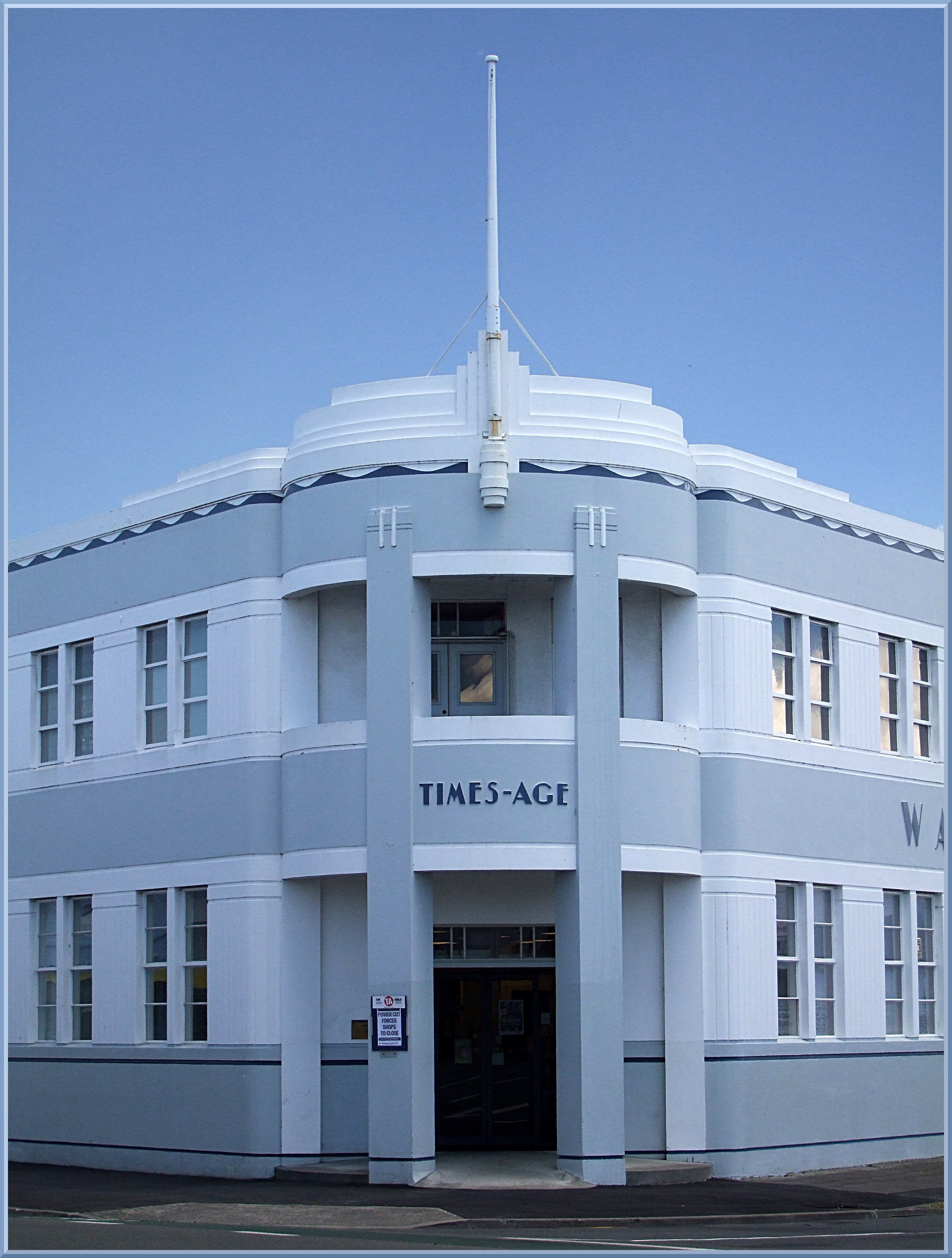 Day 326. Our local newspaper office - The Wairarapa Times-Age (est. 1938).